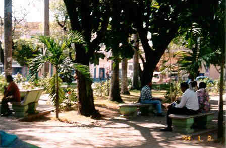 Park in San Pedro de Macoris, Dominican Repubic (park Duarte)